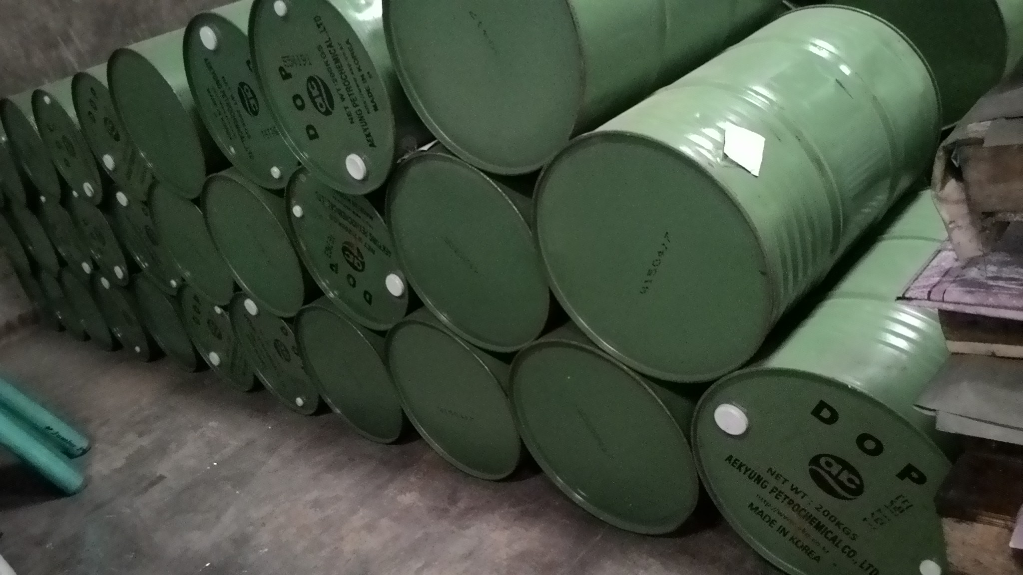 Jumbo Plastic